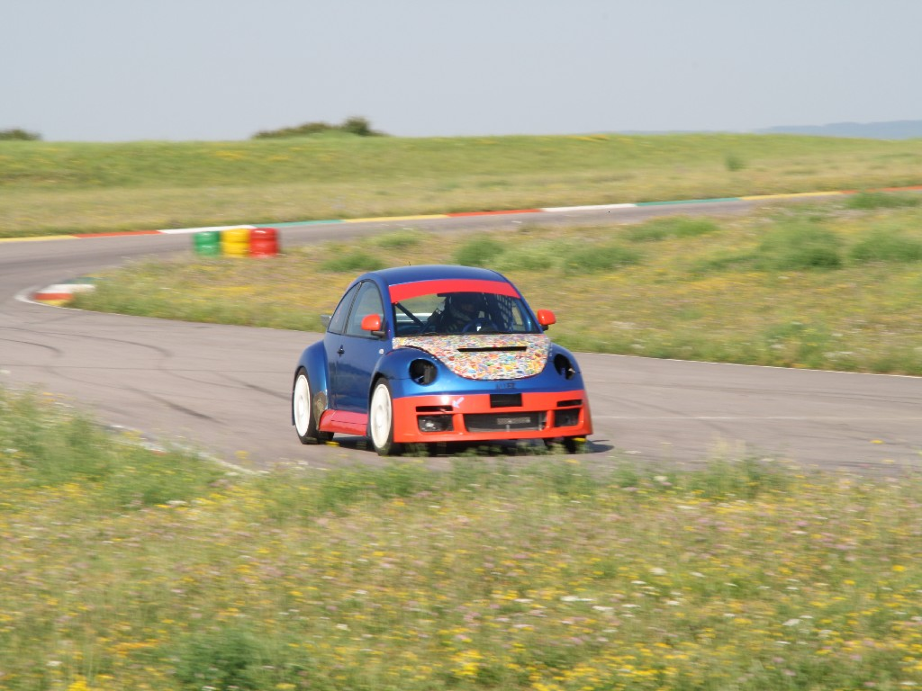 VW New Beetle Cup Race Car